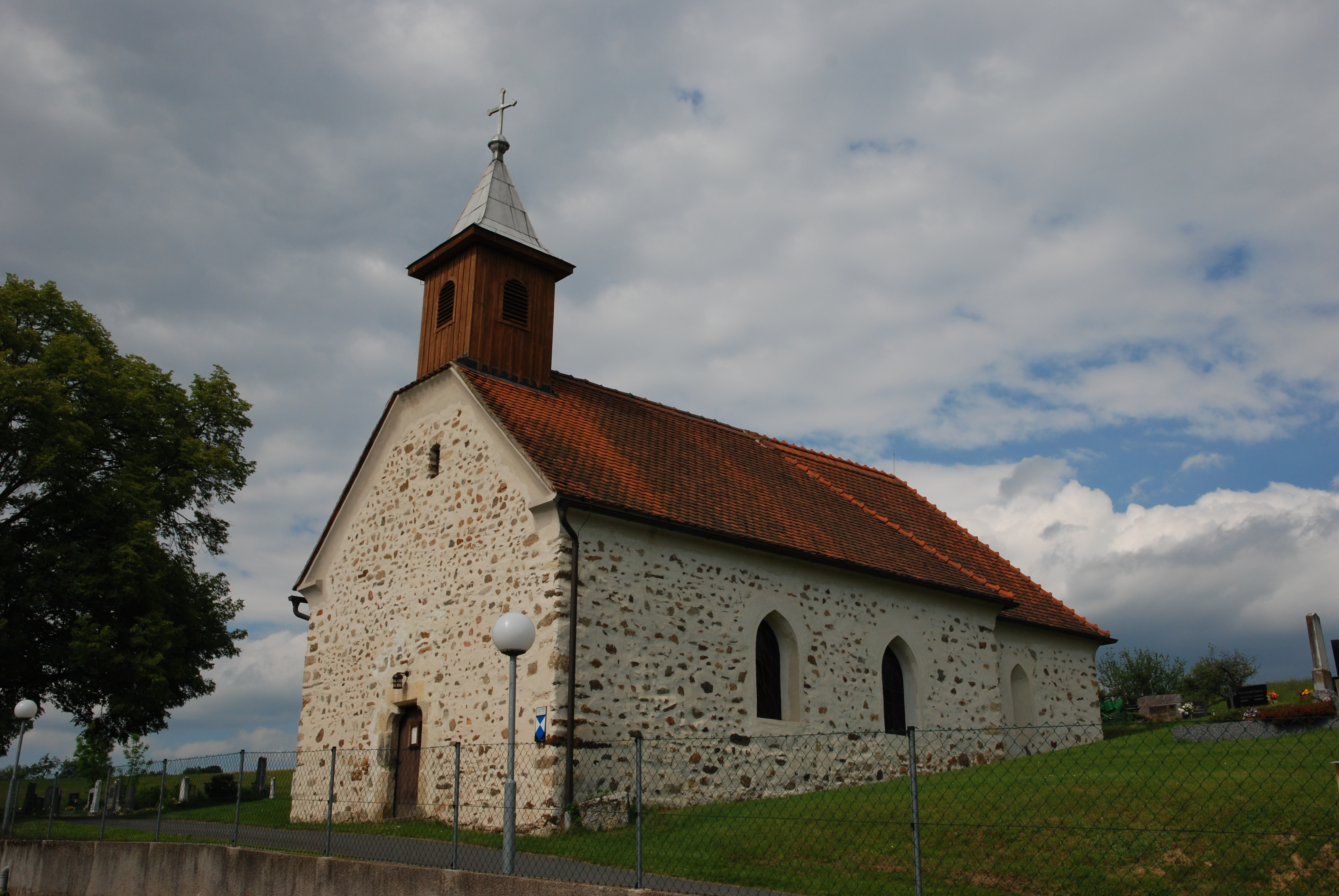 Kirche Willersdorf